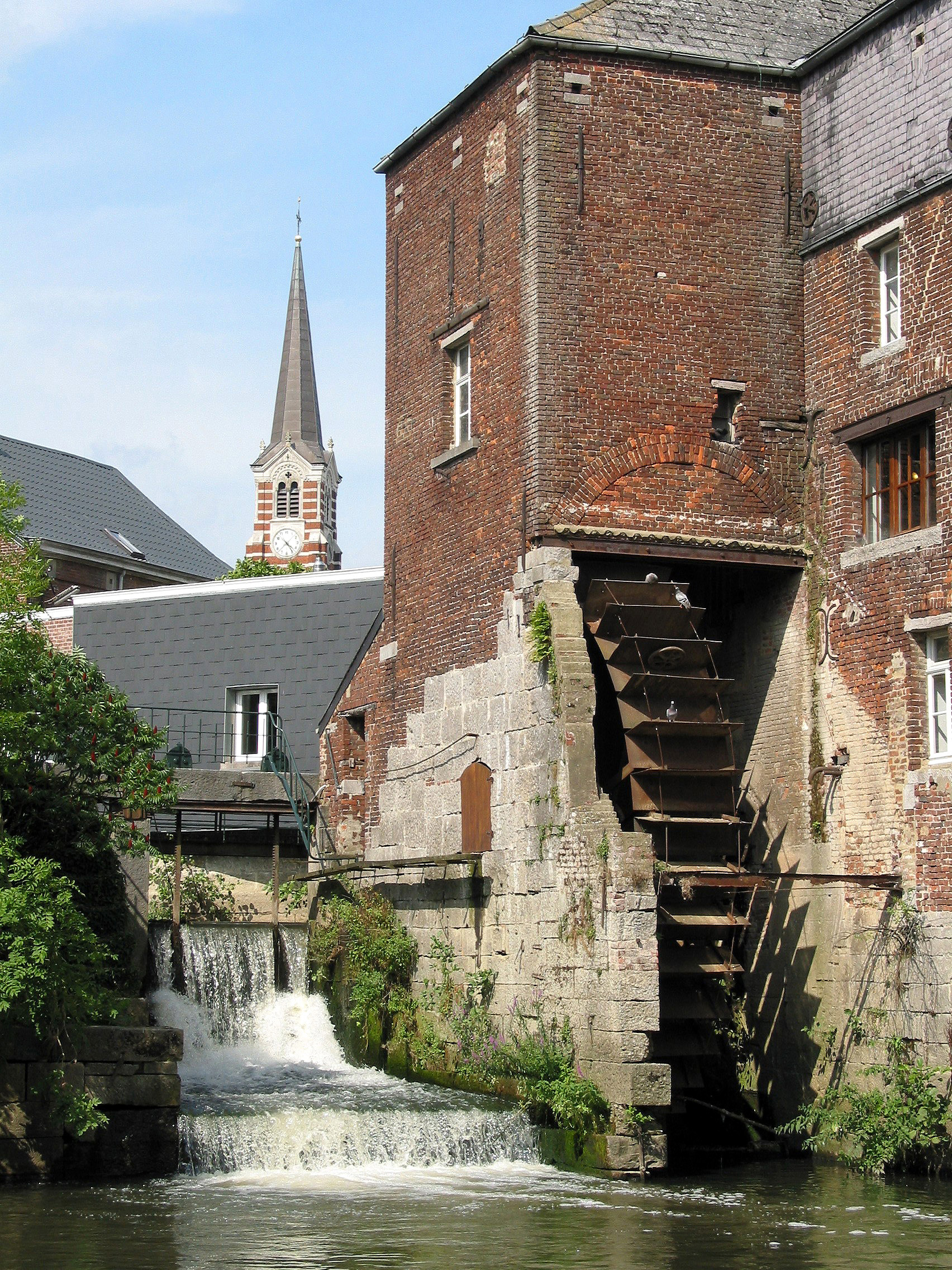 Rebecq (Belgium), the big "d'Arenberg" Watermill (XIXth century) on the Senne river.